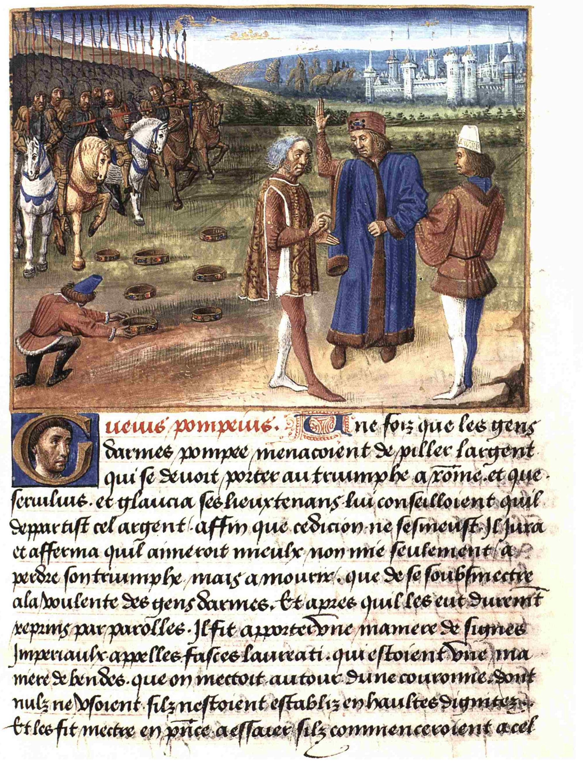 A page of the French translation of Frontinus’ „Strategemata“ by Jean de Rouvroy in the manuscript Brussels, Royal Library, Ms. 10475, fol. 115r. The miniature shows Pompey with his officers Servilius and Glaucia.